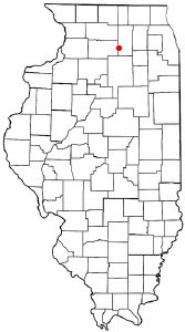 map Category:Illinois city locator maps